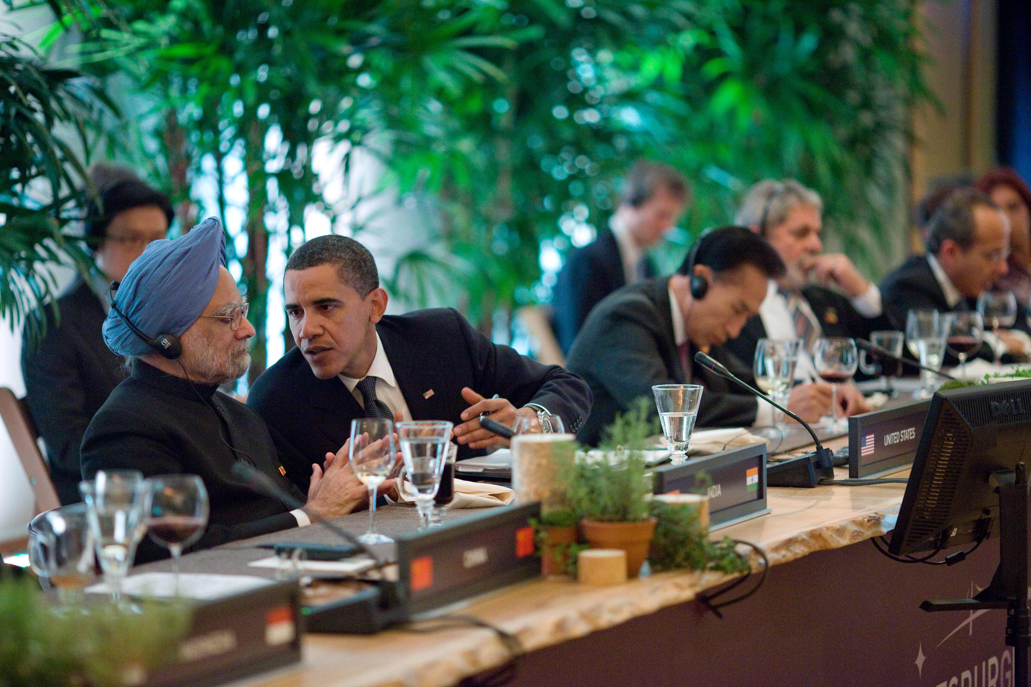 President Barack Obama talks with Indian Prime Minister Dr. Manmohan Singh during a G-20 leaders working dinner at the Phipps Conservatory and Botanical Gardens in Pittsburgh, Penn., Sept. 24, 2009. (Official White House Photo by Pete Souza)